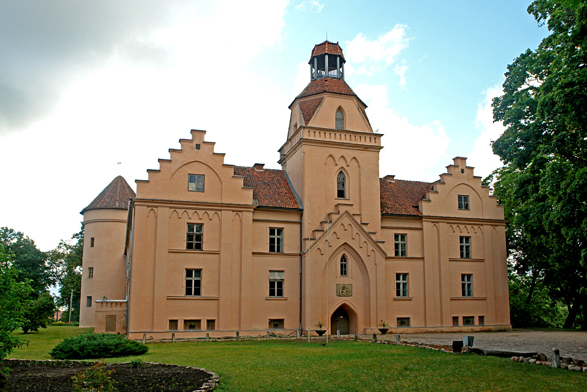 Edole castle - main facade.